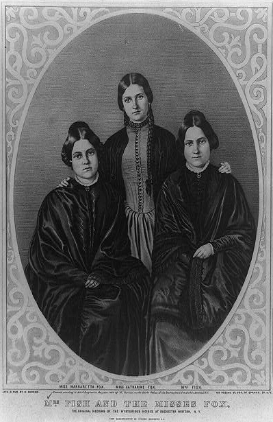 The Fox sisters: Kate (1838–92), Leah (1814–90) and Margaret (or Maggie) (1836–93). They were famous mediums in Rochester, New York.